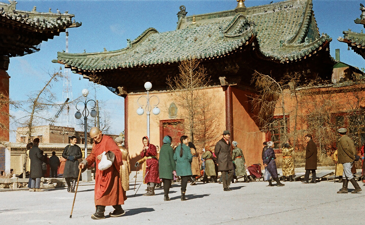 The Gandan Monastery in Ulan Bator, Mongolia (1972). Forground: mongolian lama.